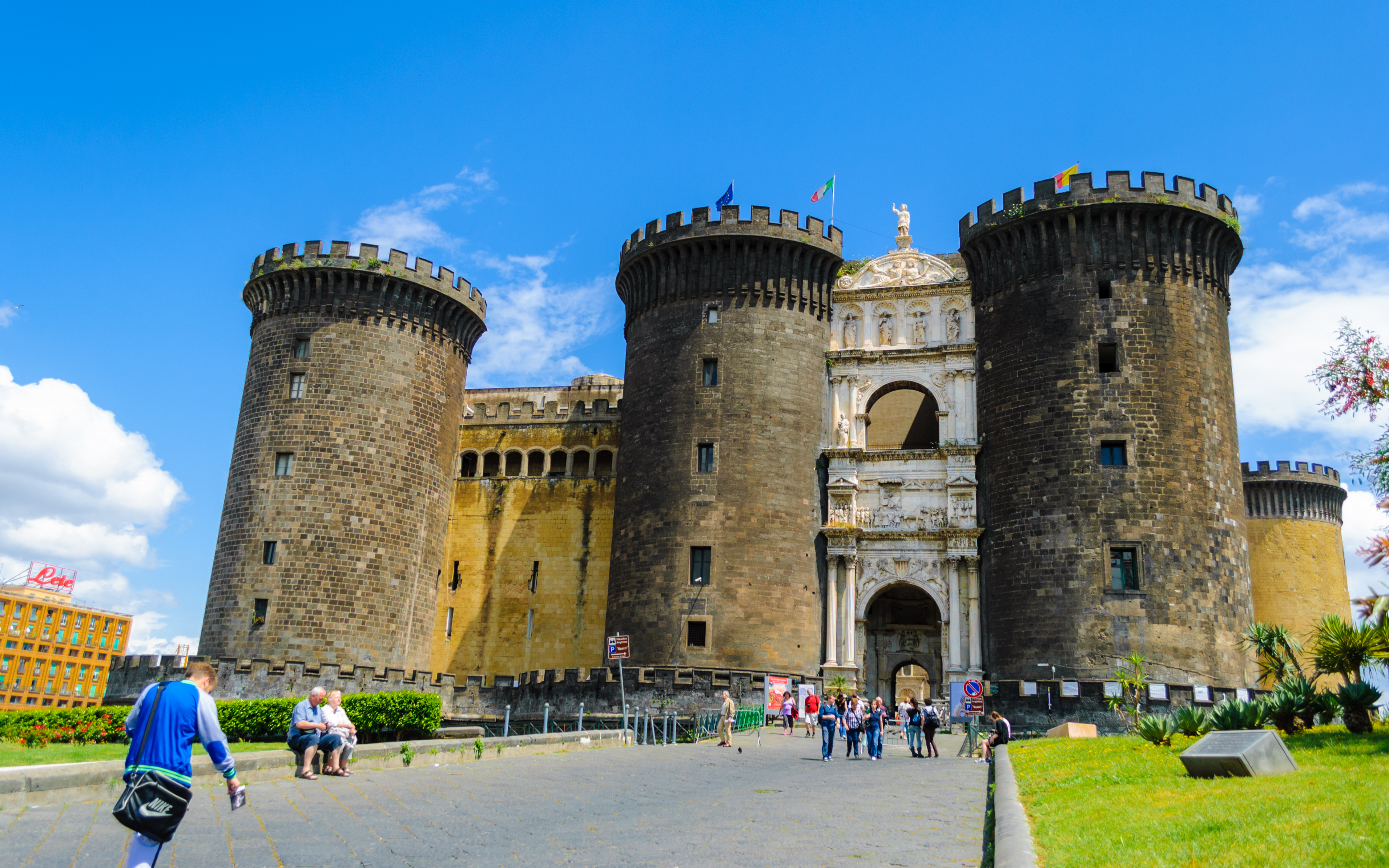 The medieval castle "Maschio Angioino", a.k.a. "Castelnuovo", in the Italian city of Naples.